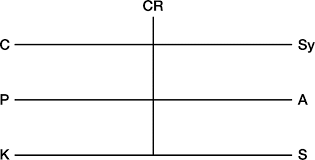 The Expressive Therapies Continuum (ETC): Interdisciplinary bases of the ETC by Vija Bergs Lusebrink*, Kristīne Mārtinsone & Ilze Dzilna-Šilova